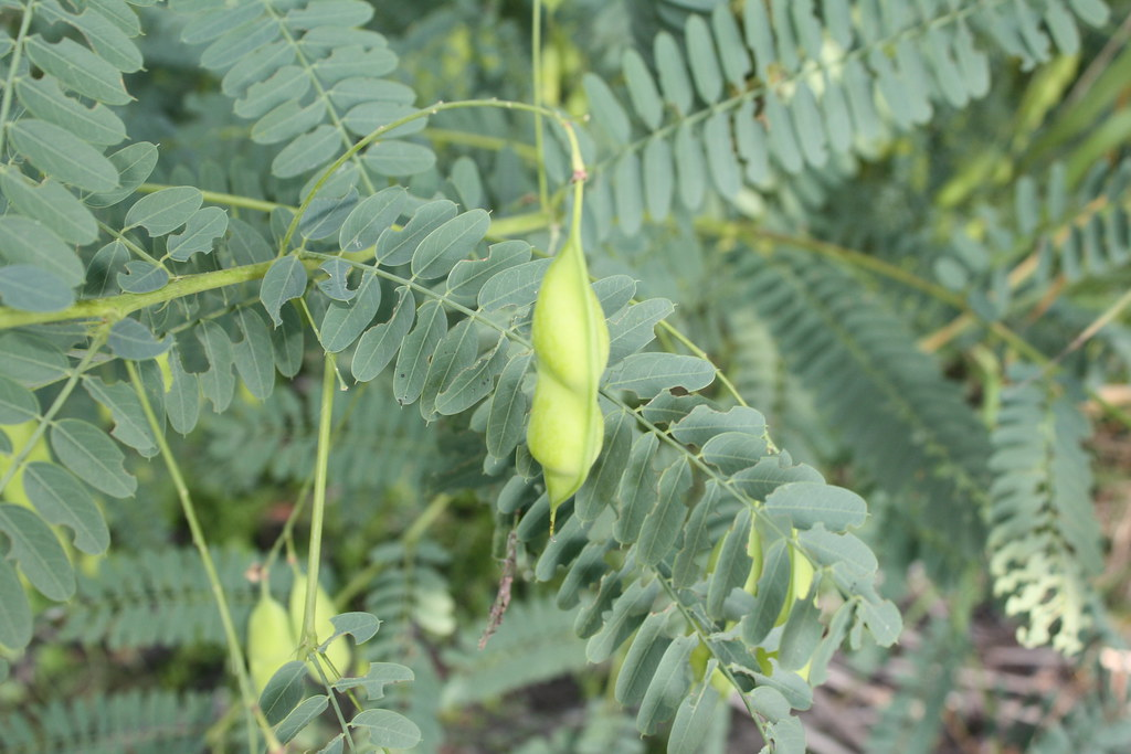 A closer look at the bladder pod features of Sesbania vesicaria.